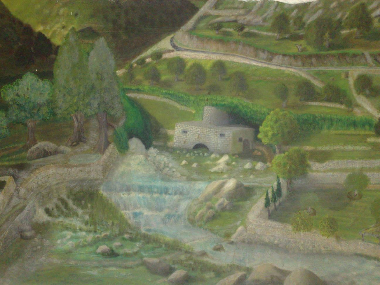 Wadi Al-Badhan Painting, showing the old windmill which belongs to Nazmi Ahmad Al-Fares. Wadi Al-Badhan is a small village (10 Km north of Nablus City} in the northern part of the westbank of Palestine